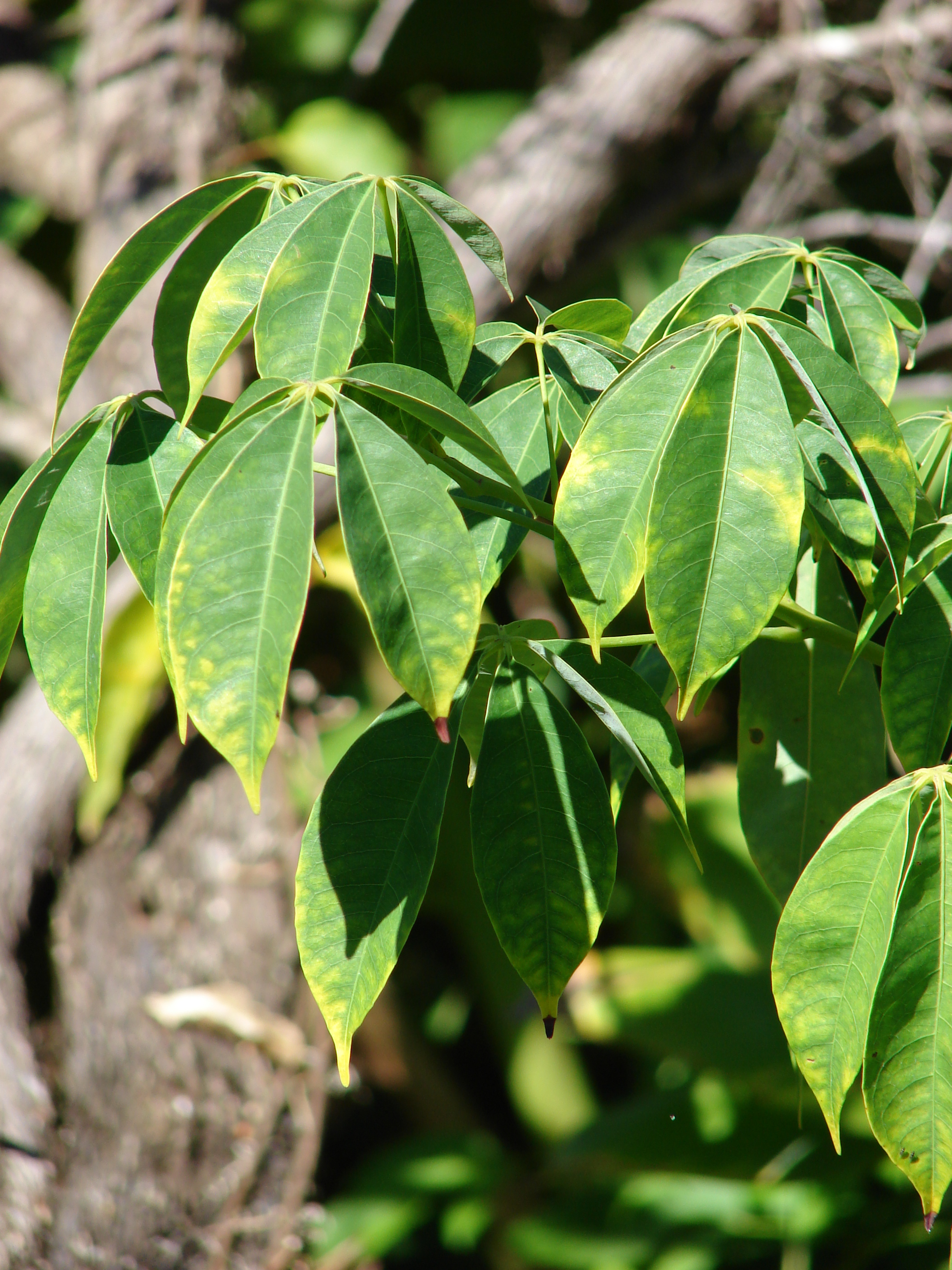 Chorisia speciosa (leaves). Location: Maui, Enchanting Floral Gardens of Kula